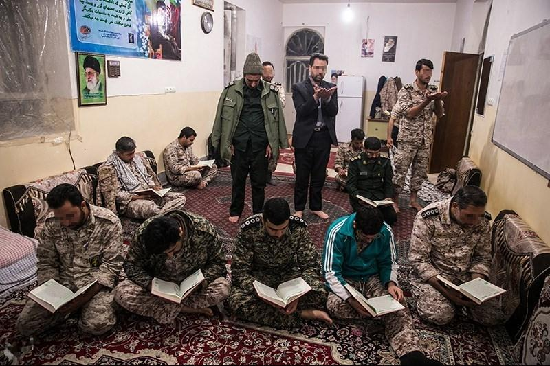 IRGC Ground Force Commandos in Pictures - TEHRAN (Tasnim) – Special unit of the Islamic Revolutionary Guard Corps (IRGC) Ground Force include skillful handpicked members.